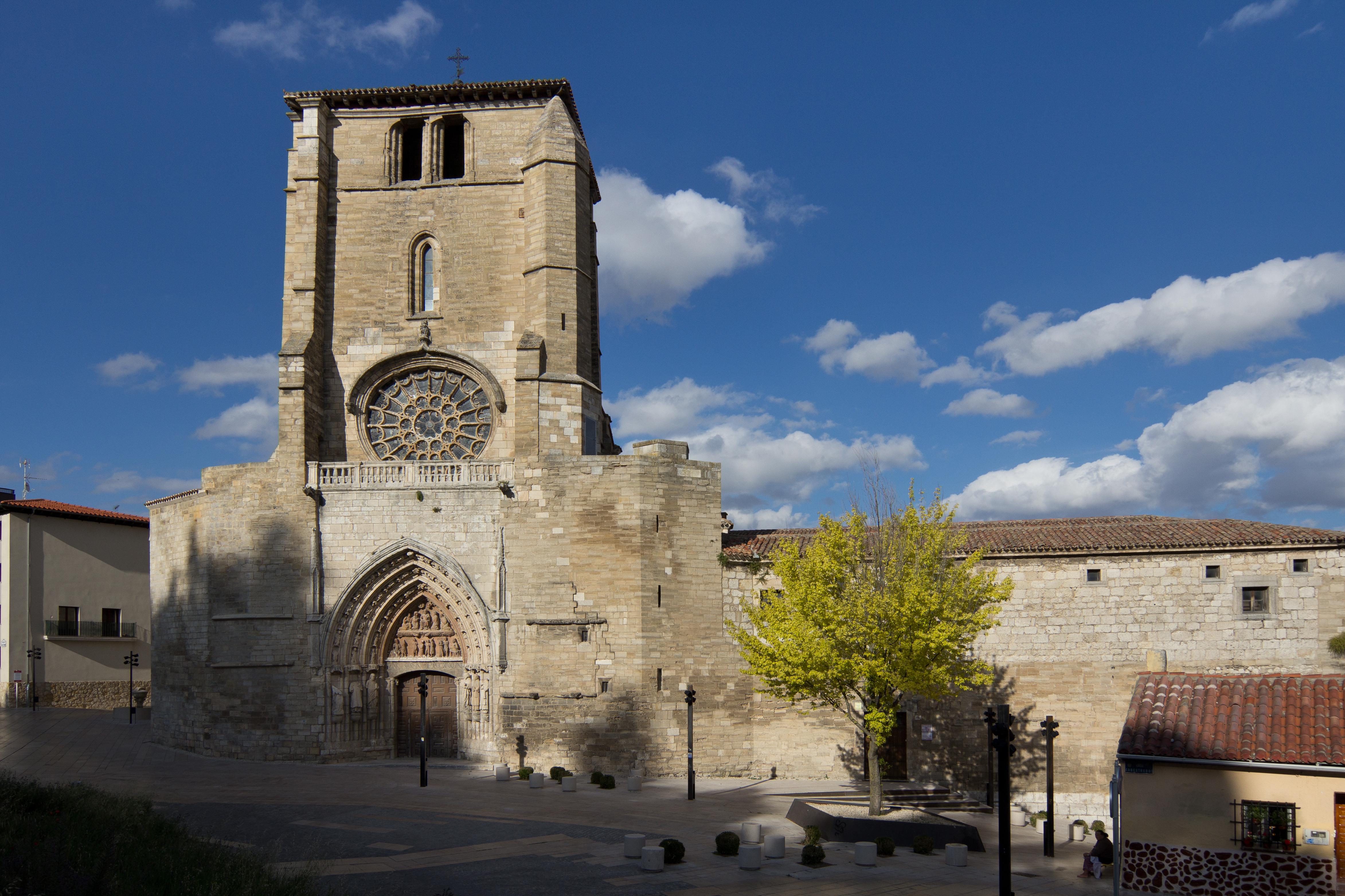 Church of St. Esteban, Burgos, Castile and León, Spain.